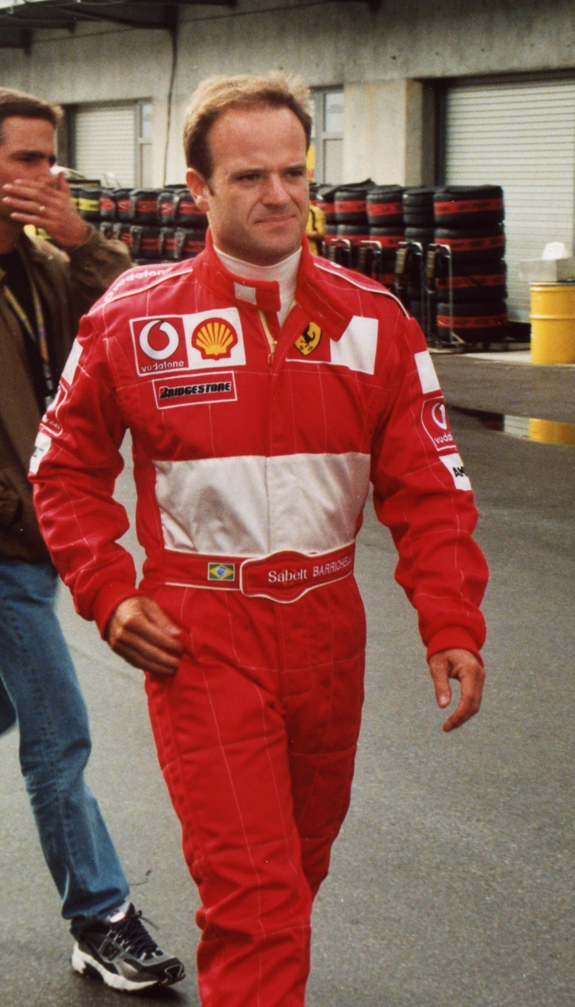 Rubens Barrichello, Indianapolis, 2002